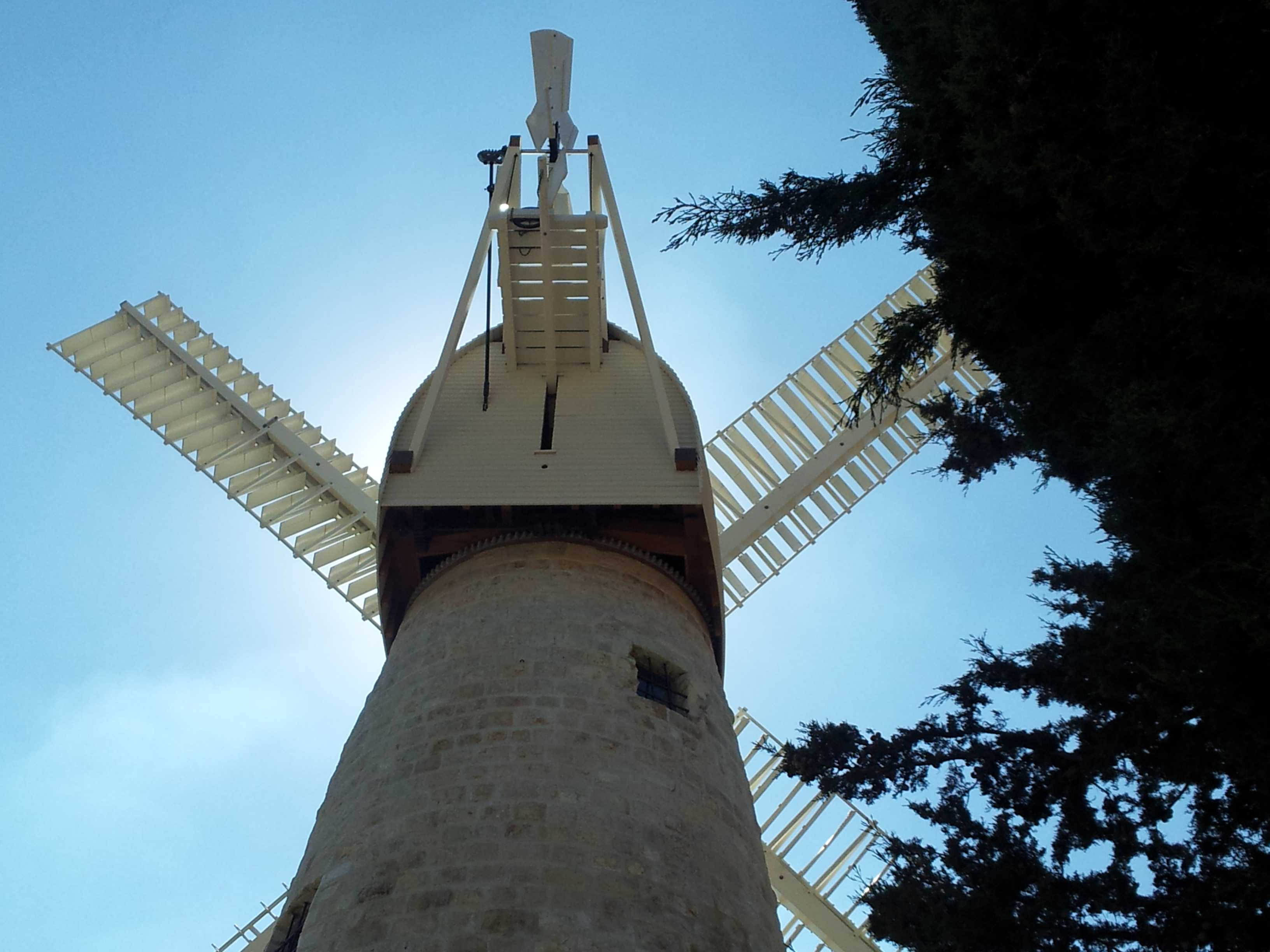 Moses Montefiore Windmill new version (2012)